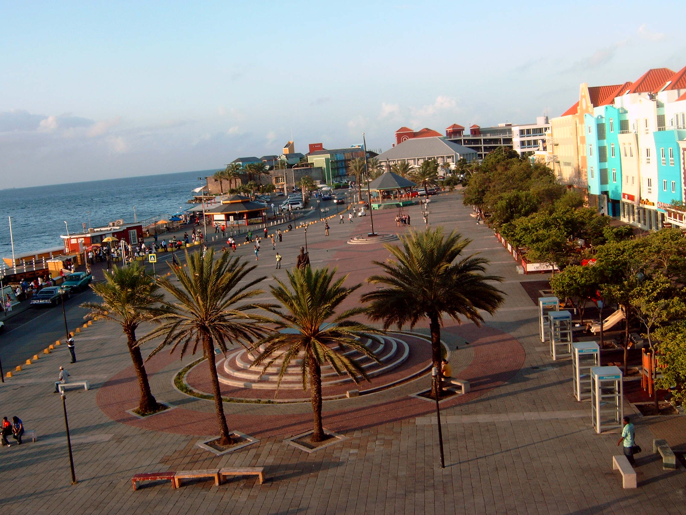 Brionplein, the heart of Otrobanda in Willenstad, Curacao, Kingdom of the Netherlands, seen from the north (from Hotel Otrobanda)